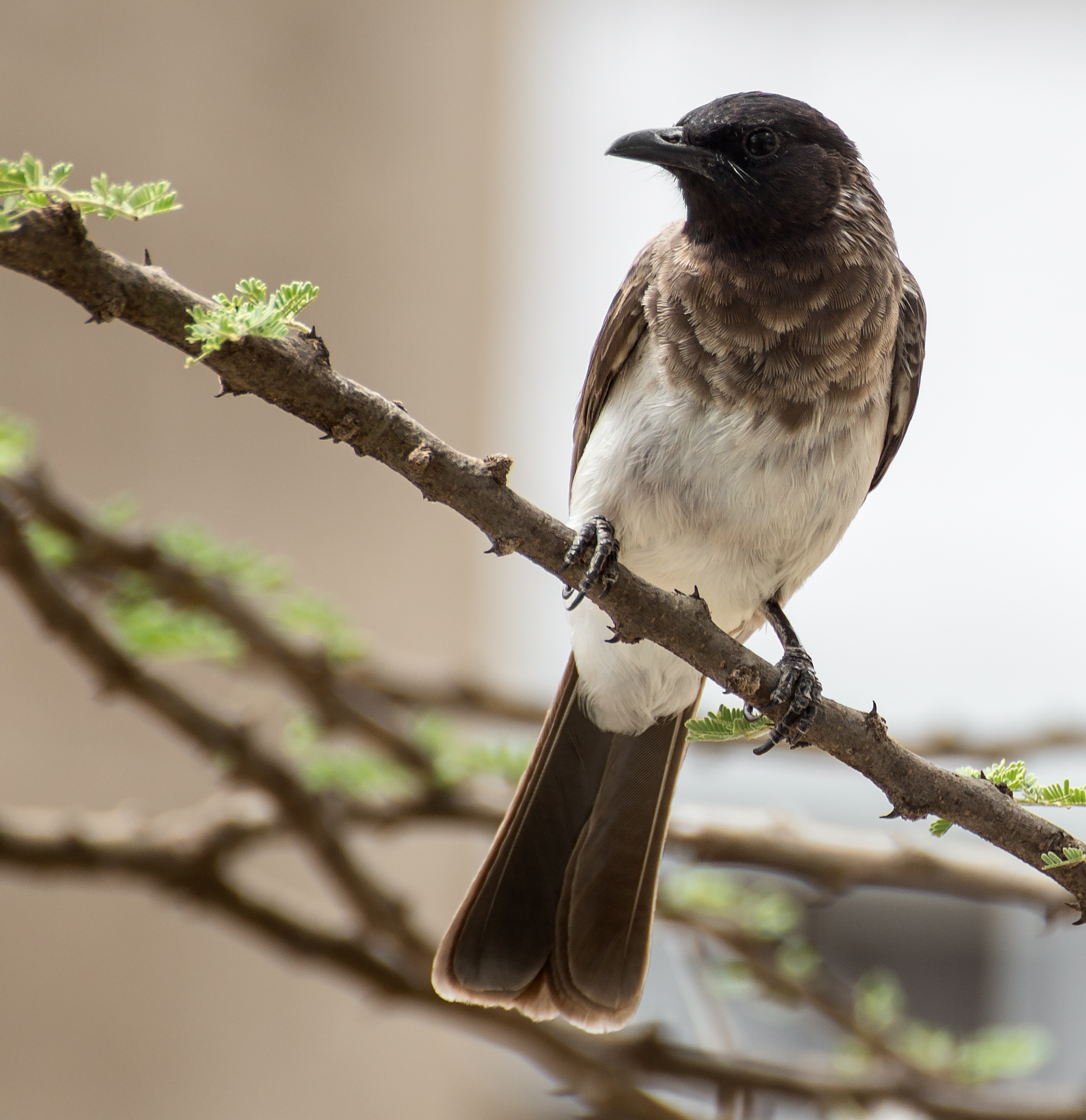 Common bulbul in Aledeghi Wildlife Reserve, central Ethiopia